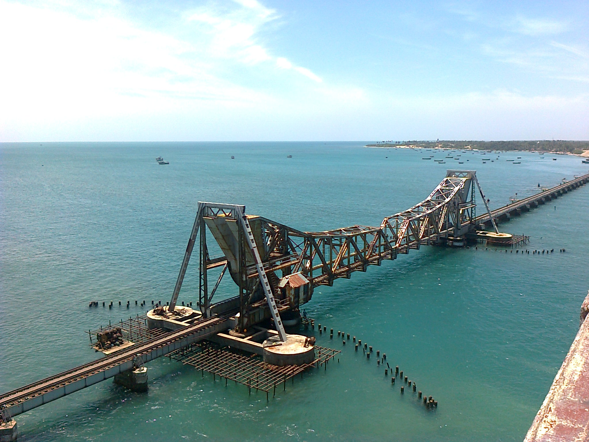 this is one of the Old Pamban Bridge which is located in Tamilnadu